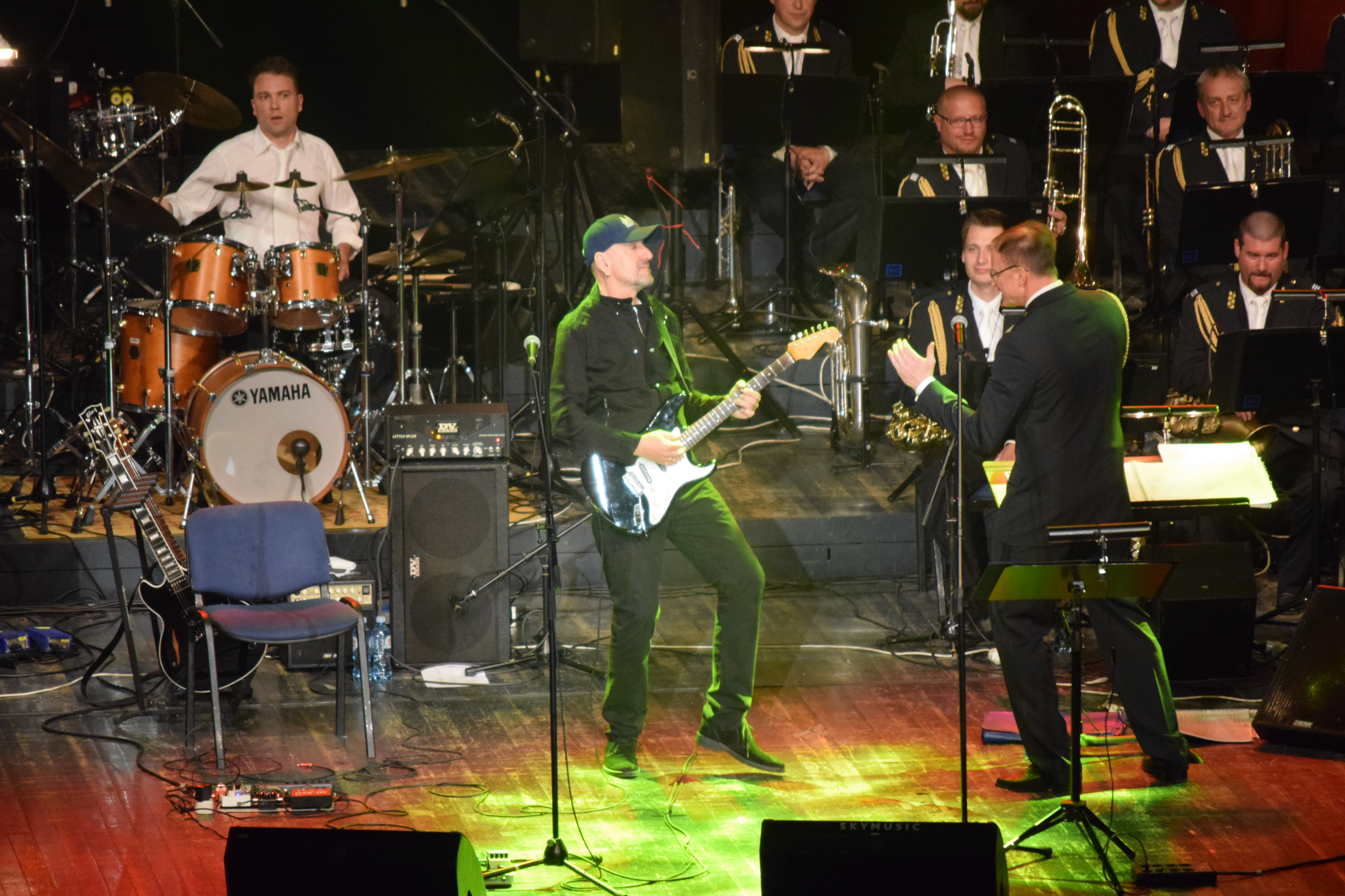 Vlatko Stefanovski with the Big Band Orchestra of the Slovenian Army on April 21, 2017 in the Sava Center in Belgrade (Serbia)